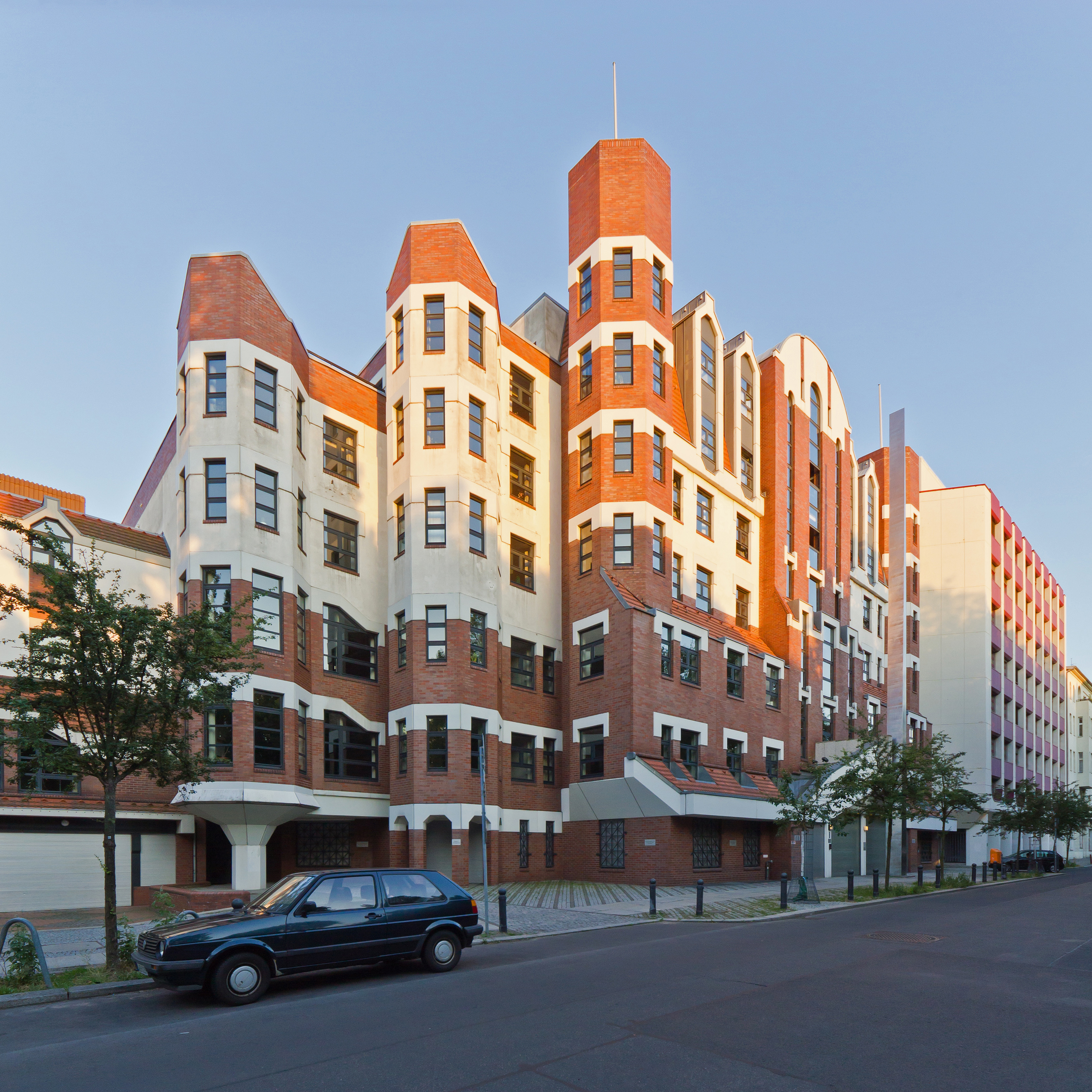 A courthouse in Berlin-Moabit, Germany